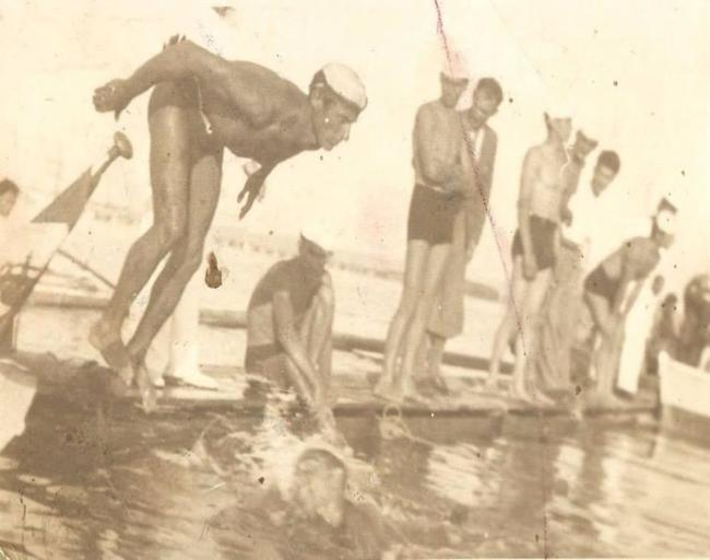 Stafete